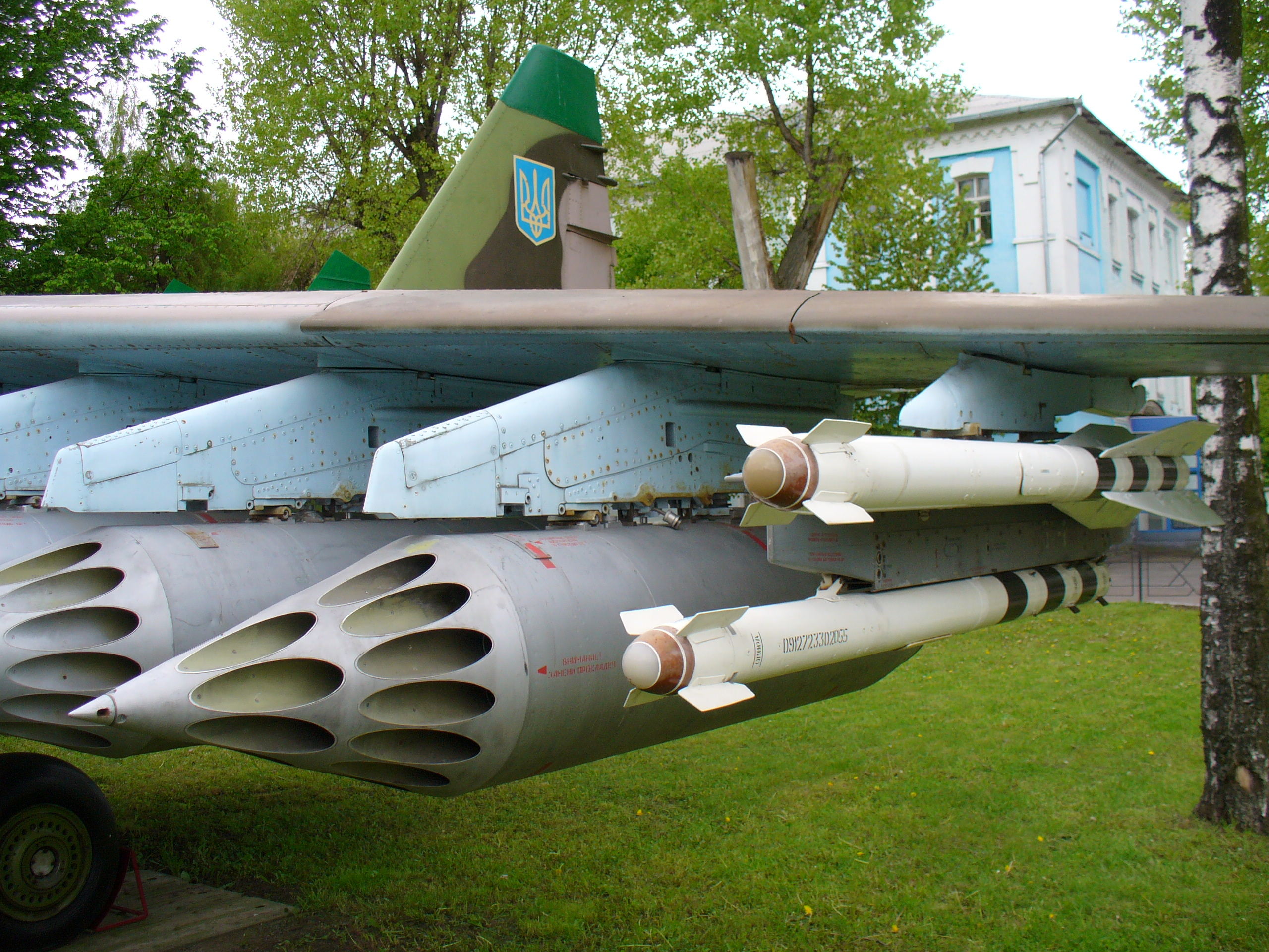 The Sukhoi Su-25 is a Soviet Union jet aircraft. NATO reporting name "Frogfoot". Ukrainian Air Force Museum in Vinnitsa.